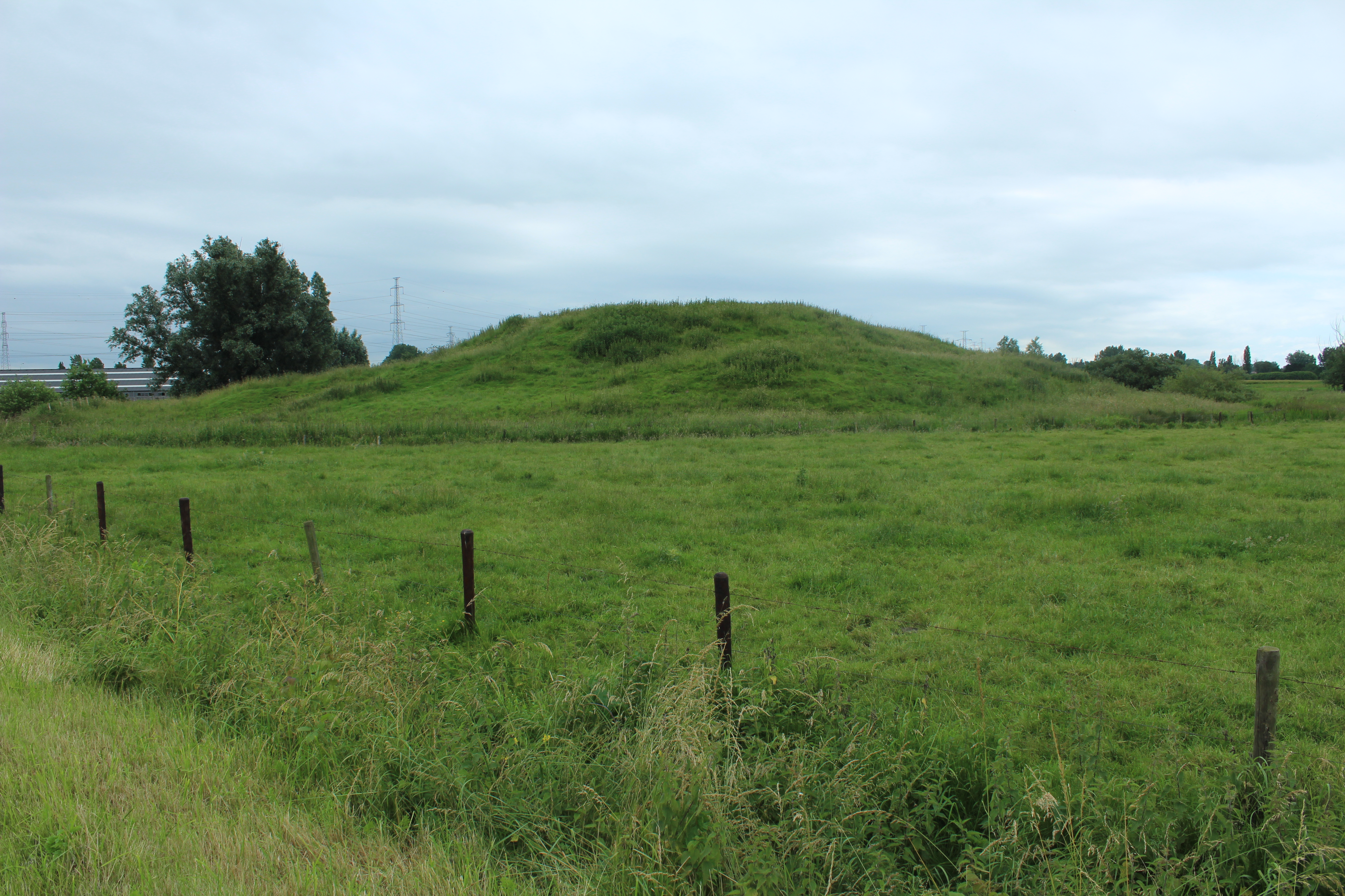 Singelberg, Beveren. Ruins of a 12th century castle. Archeological site.